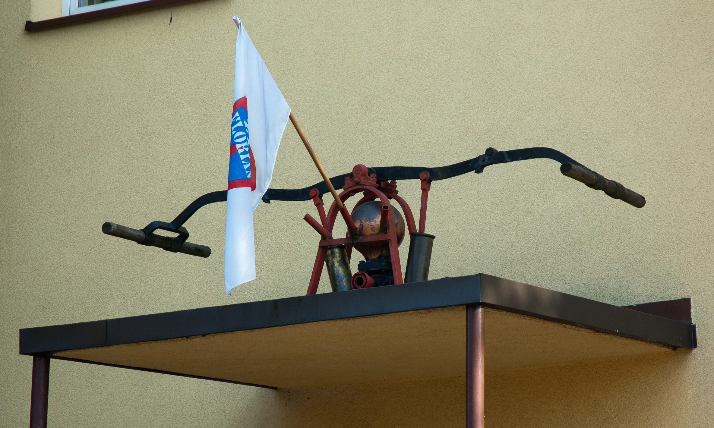 Historic fire engine District Headquarters of State Fire Service - Legionowo Street. Mickiewicz 11